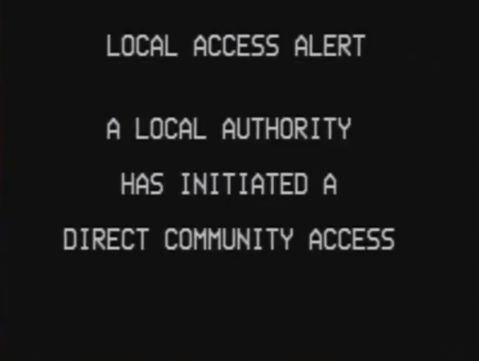 The Local Access Alert screen used when civil authorities address to cable viewers in a certain community of impending dangers.